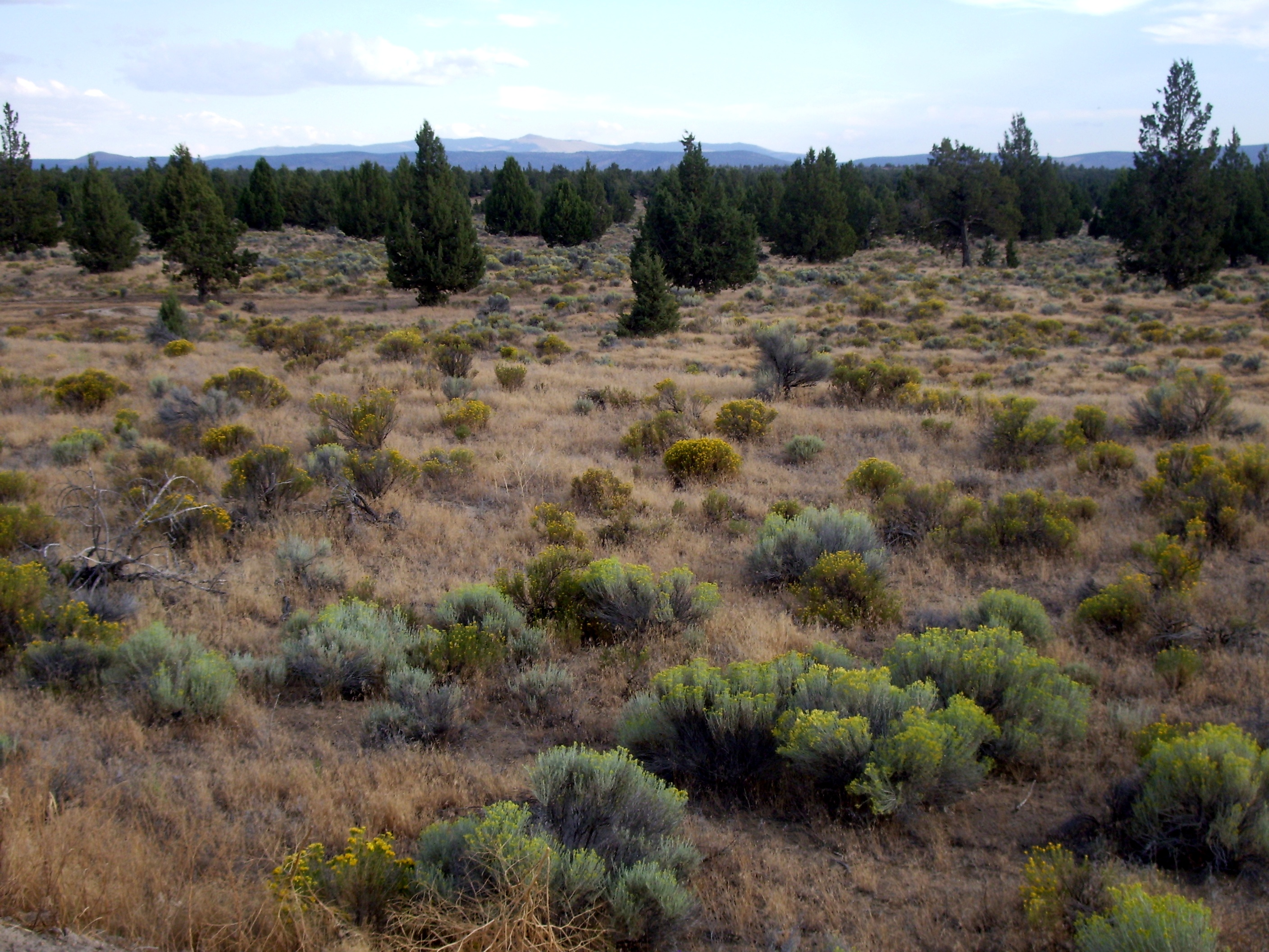 Typical Oregon Badlands Wilderness foliage: sagebrush in bloom, Juniper trees with full ripe berries, and bluebunch wheatgrass. The soil is loose and sandy where there are no lava formations; the Tumulus Trail has especially loose soil. Some foothills of the Oregon Cascades are in the background.